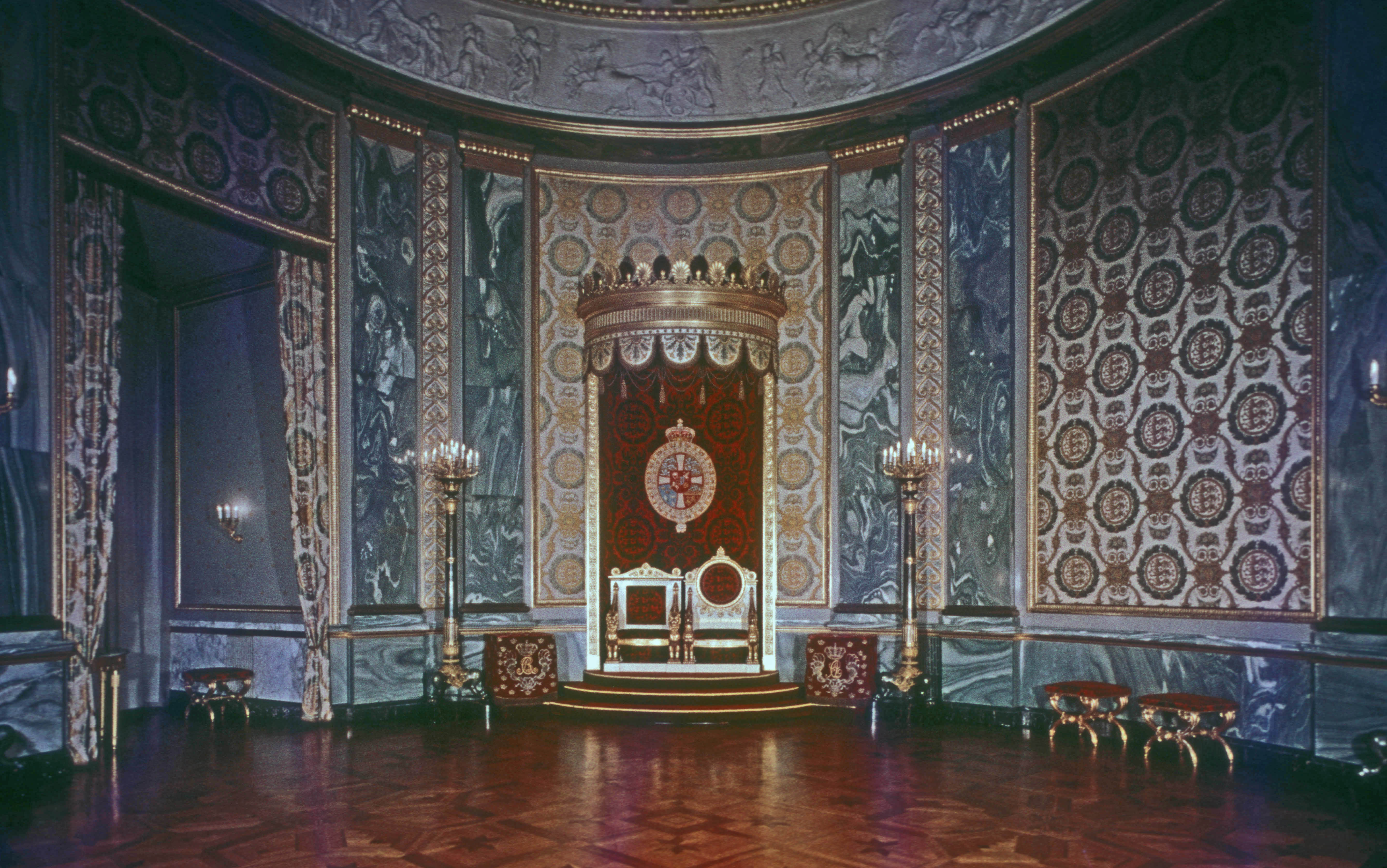 NO LONGER USED FOR CORONATIONS BUT WHERE FOREIGN AMBASSADORS PRESENT THEIR CREDENTIALS